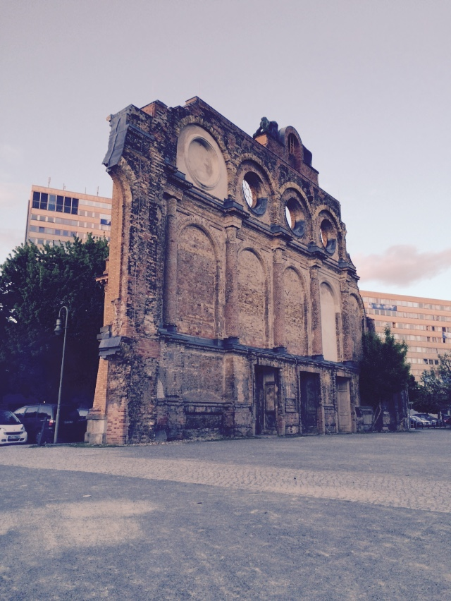 The remains of the Berlin Anhalter Bahnhof.